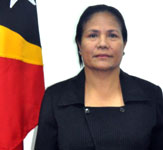 Aurora Ximenes, member of parliament